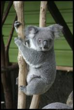 A koala at the Lone Pine Koala Sanctuary in Brisbane.